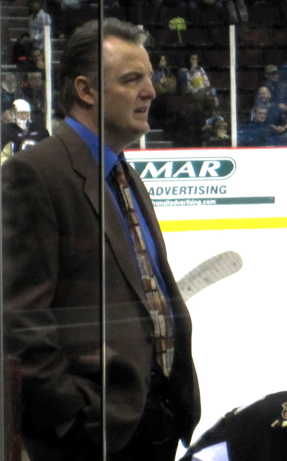 Chilliwack Bruins coach Marc Habscheid on the bench during a game against the Vancouver Giants on March 9, 2011.